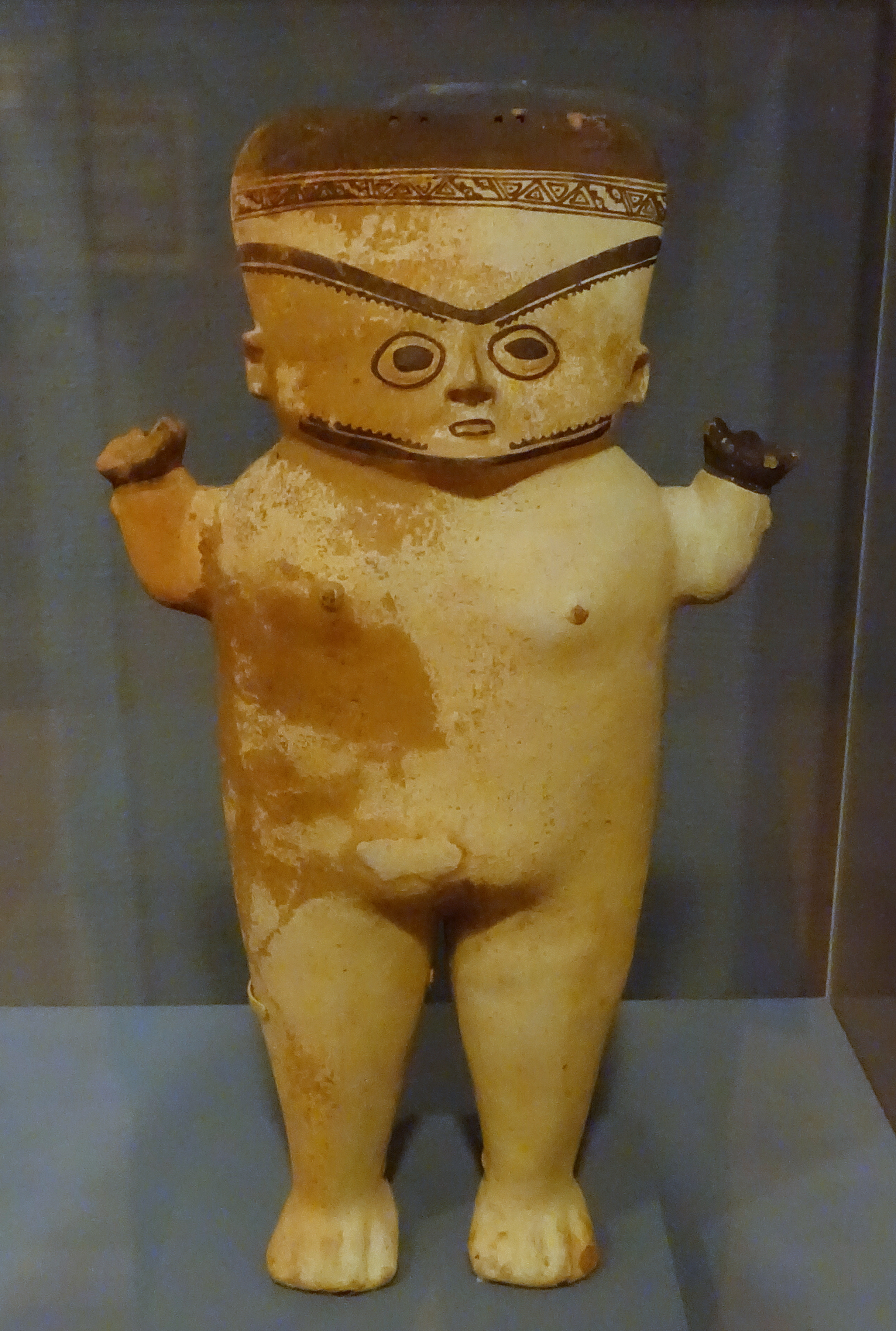 Exhibit in the Krannert Art Museum, University of Illinois at Urbana-Champaign - Urbana-Champaign, Illinois, USA. This work is old enough so that it is in the public domain.